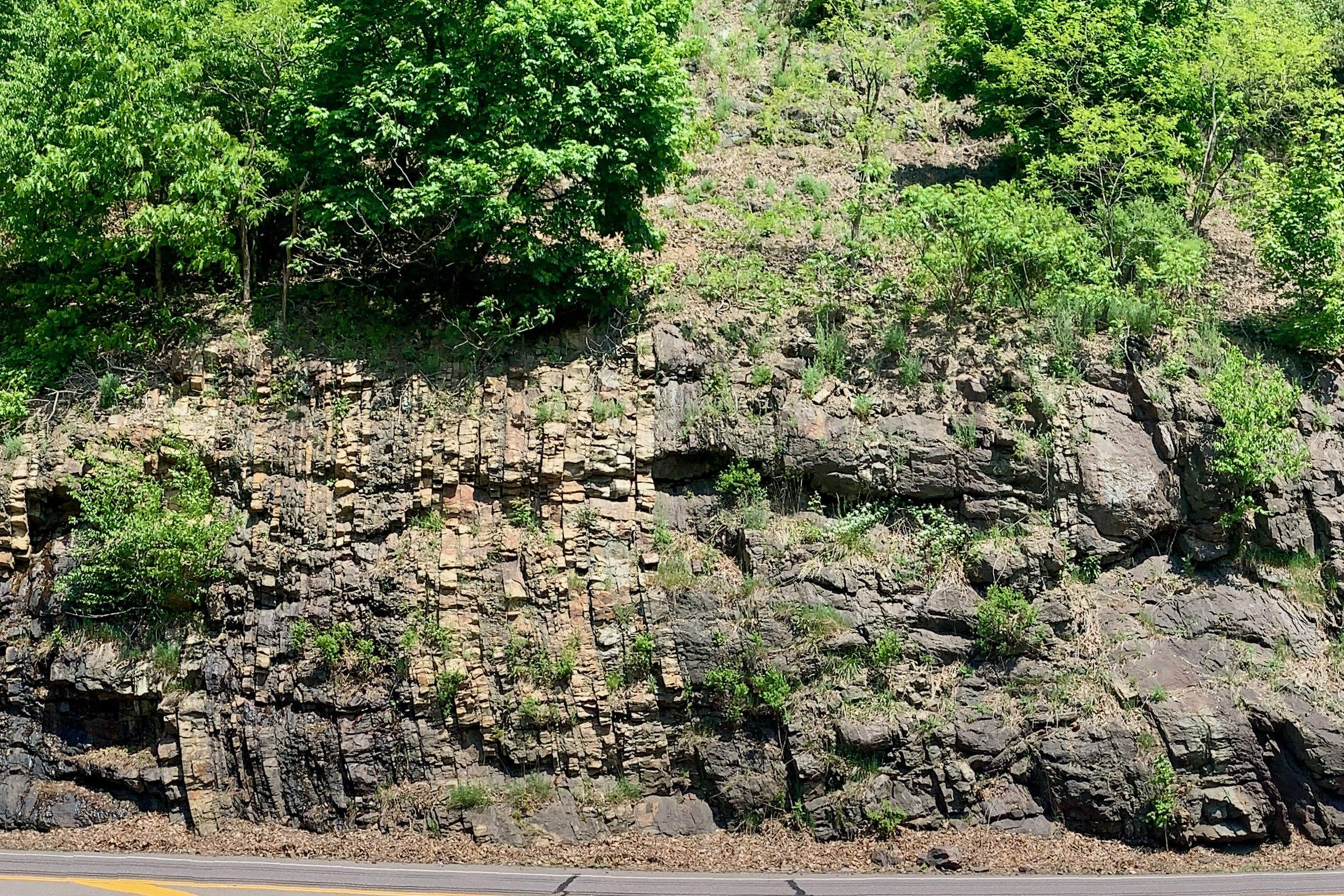 Exposed bedrock layers by the roadcut for PA Route 61 in the Schuylkill Gap at Port Clinton, Pennsylvania. Vertically tilted sandstone and quartzite.